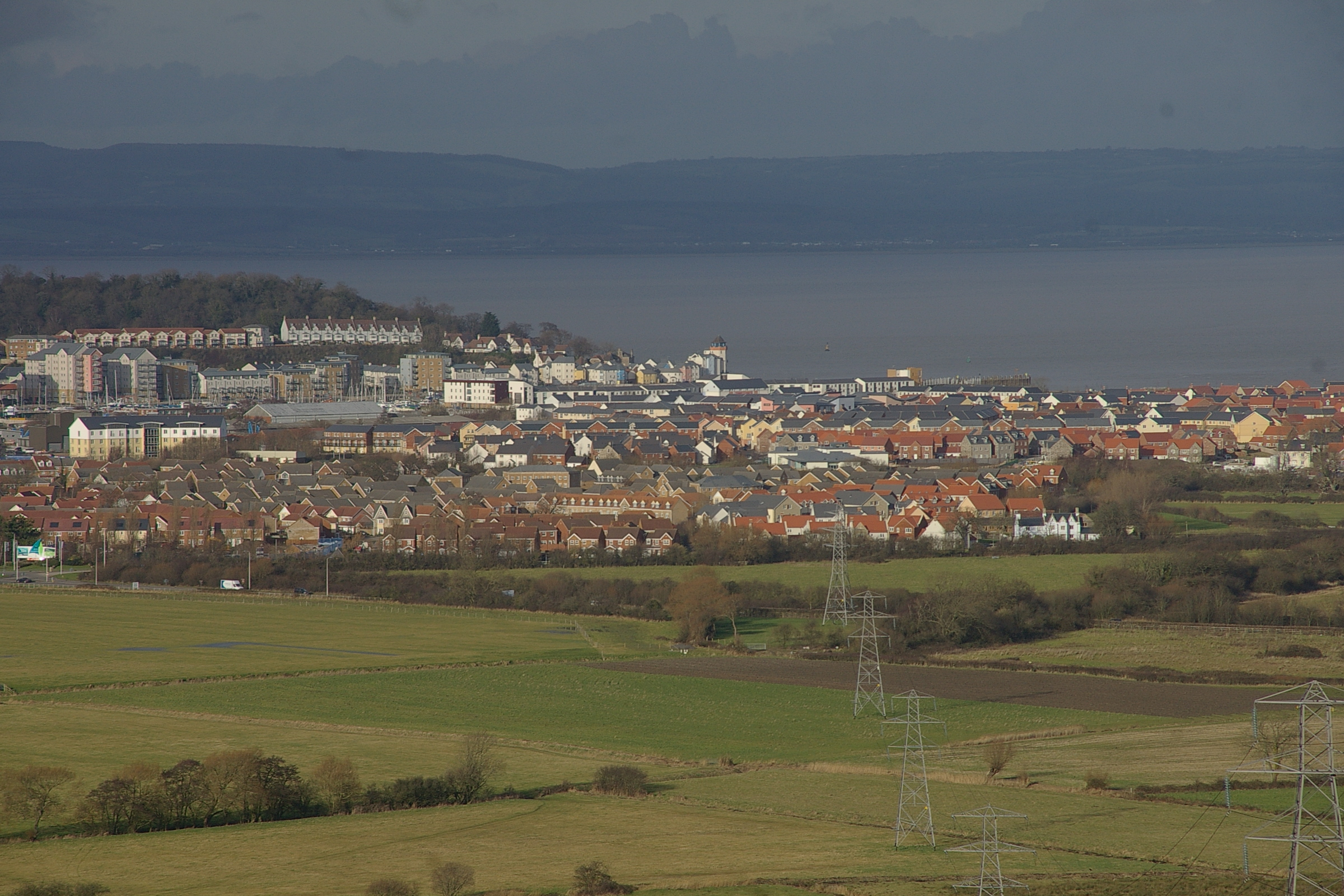 Portishead, viewed from Naish Hill.